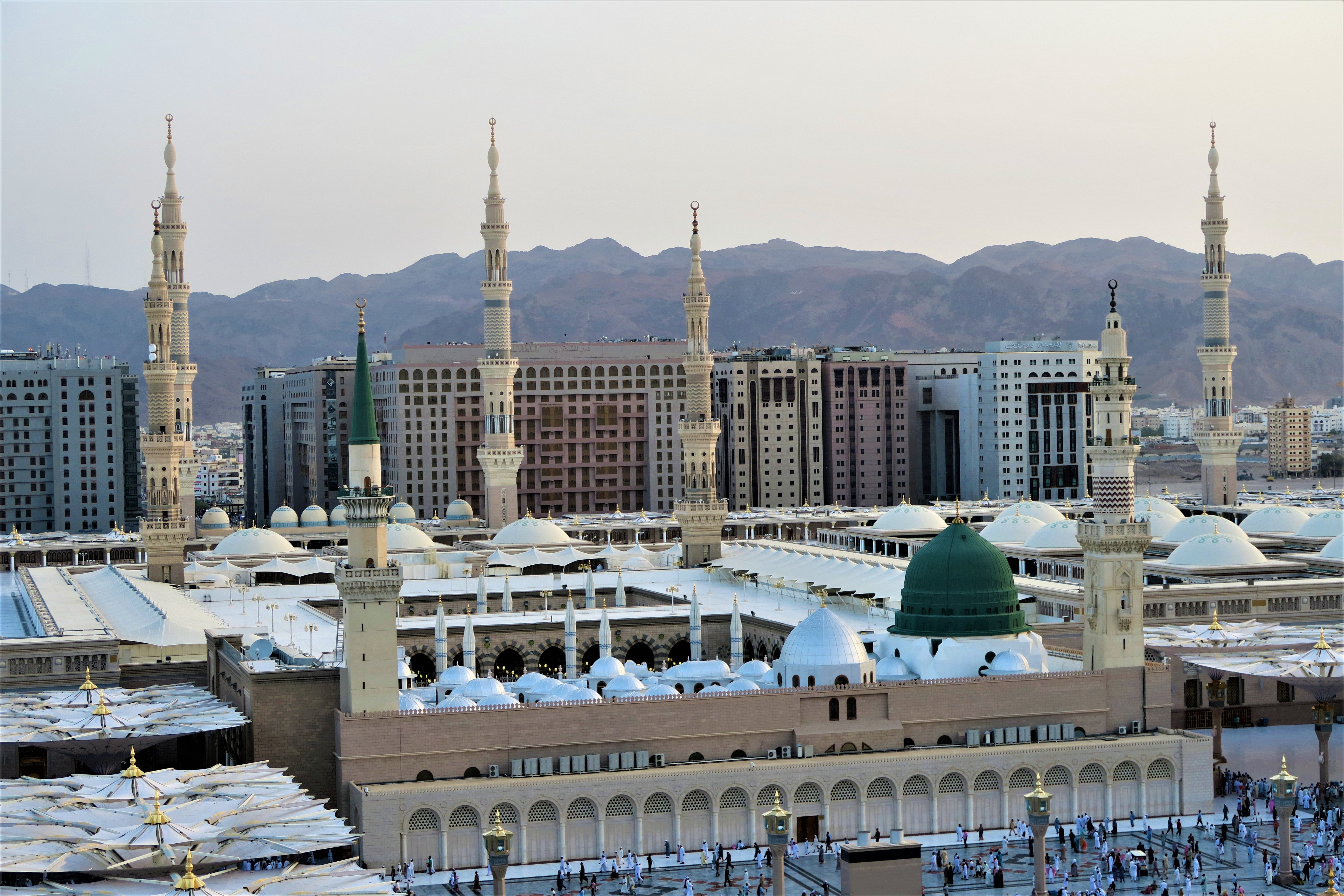 A bird's eye view of the Prophet's Mosque in Medina (Masjid al-Nabawi) from the southern side